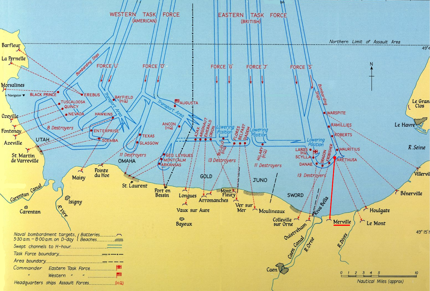 Based on Image:Naval Bombardments on D-Day.png - HMS Arethusa and Merville marked.